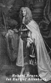 Robert Bruce, 1st Earl of Ailesbury| (c1626-1685)